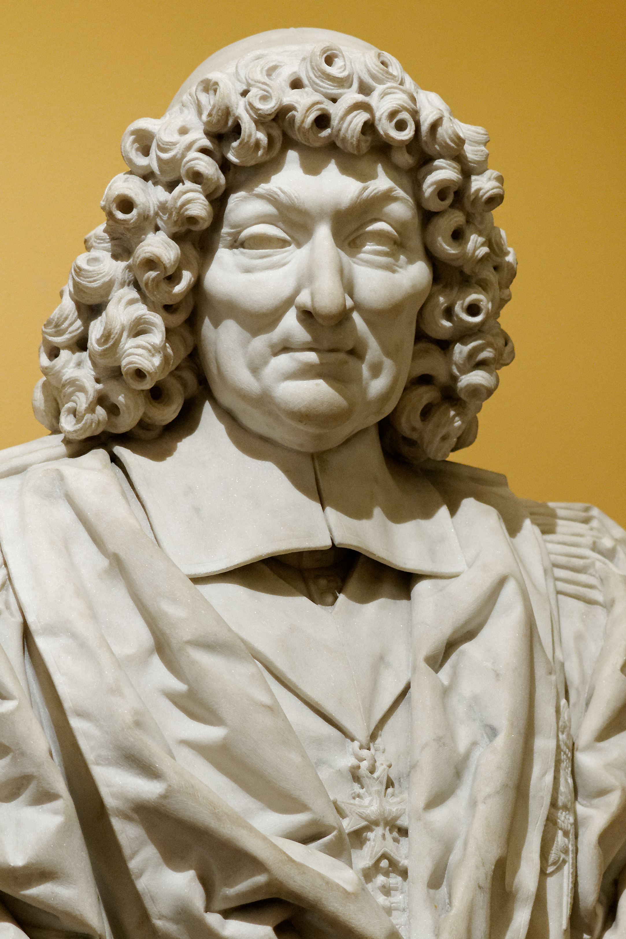 Bust of Pierre Séguier (1588–1672), Lord Chancellor of France.